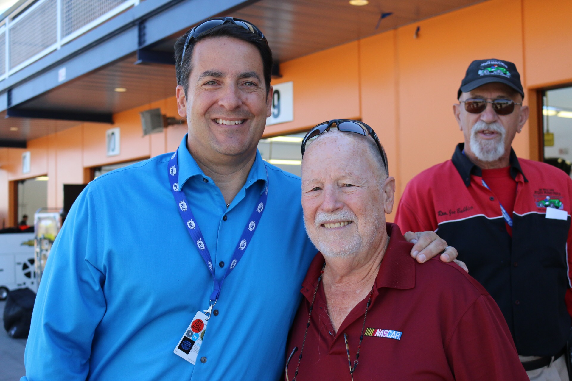 Ralph Sheheen w/Owen Kearns at Las Vegas Motor Speedway - October 2015